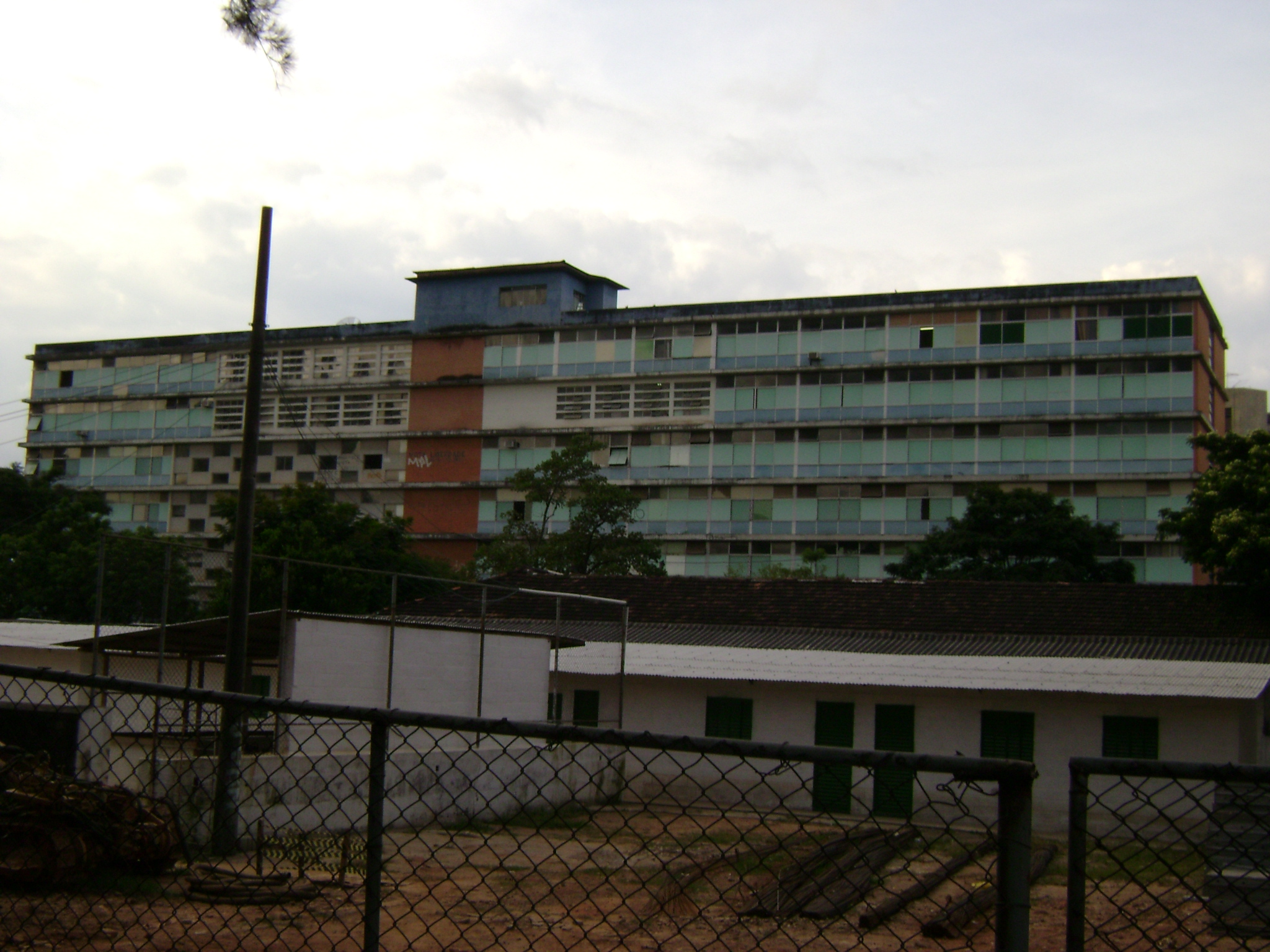 Antigo prédio da Fafich (UFMG).